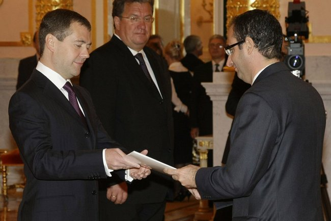 THE KREMLIN, MOSCOW. Presentation by foreign ambassadors of their letters of credence. Dmitry Medvedev receives a letter of credence from Maltese Ambassador Carmel Inguanez.